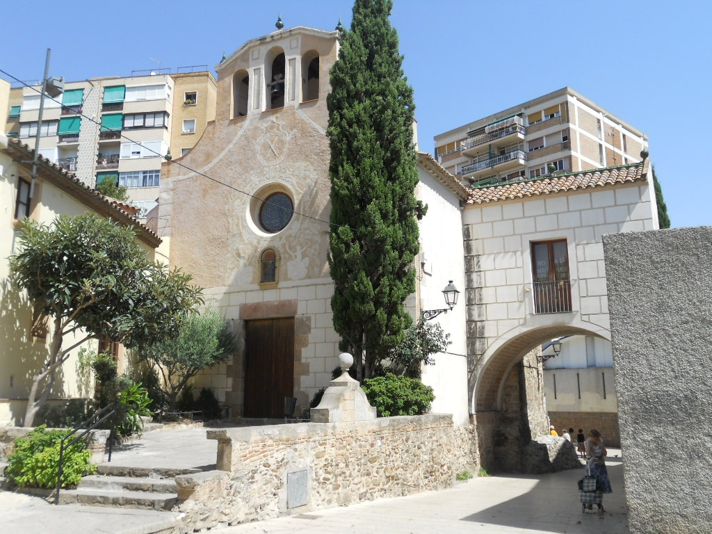 Església de Santa Eulàlia de Vilapicina, in Barcelona (Catalonia). 10th century; 18th century